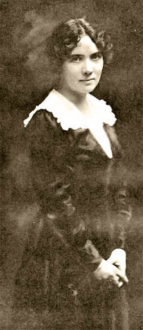 Photograph of Mary Brooks Picken, circa 1918.